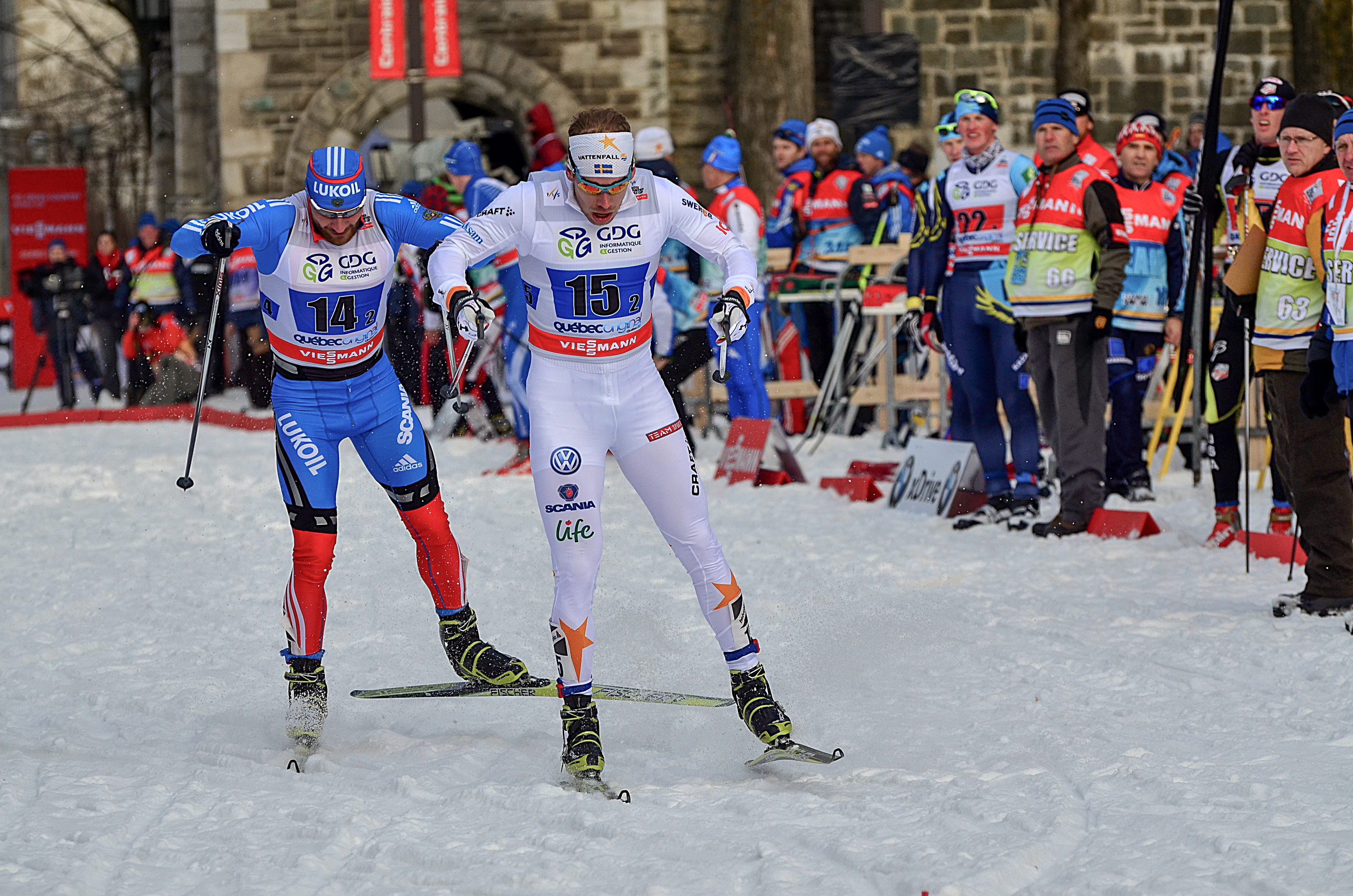 Emil Jönsson (Sweden) and Alexey Petukhov (Russia) at the Quebec City Sprint Cross-country Skiing World Cup 2012–2013. Free Team Sprint Final.